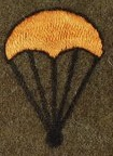 Para Wing Netherlands WW2 (Princess Irene brigade)